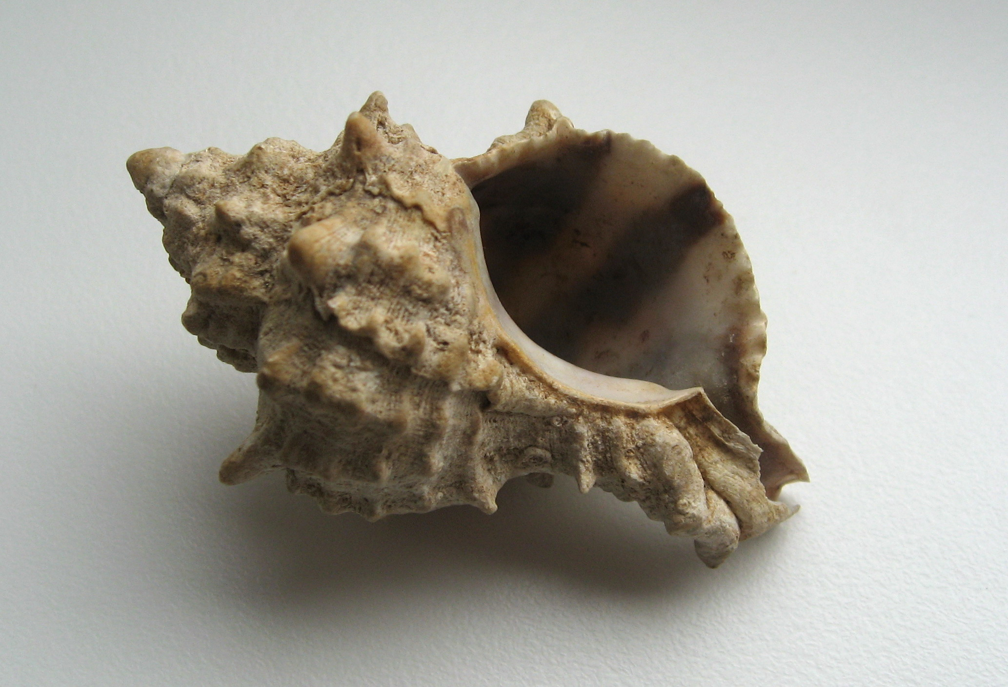 Photo of the shell of Hexaplex trunculus.